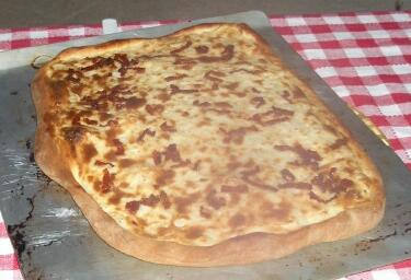 I took this picture on 10 July 2005 and hereby release all rights to it. Hayford Peirce 23:36, 23 May 2006 (UTC)